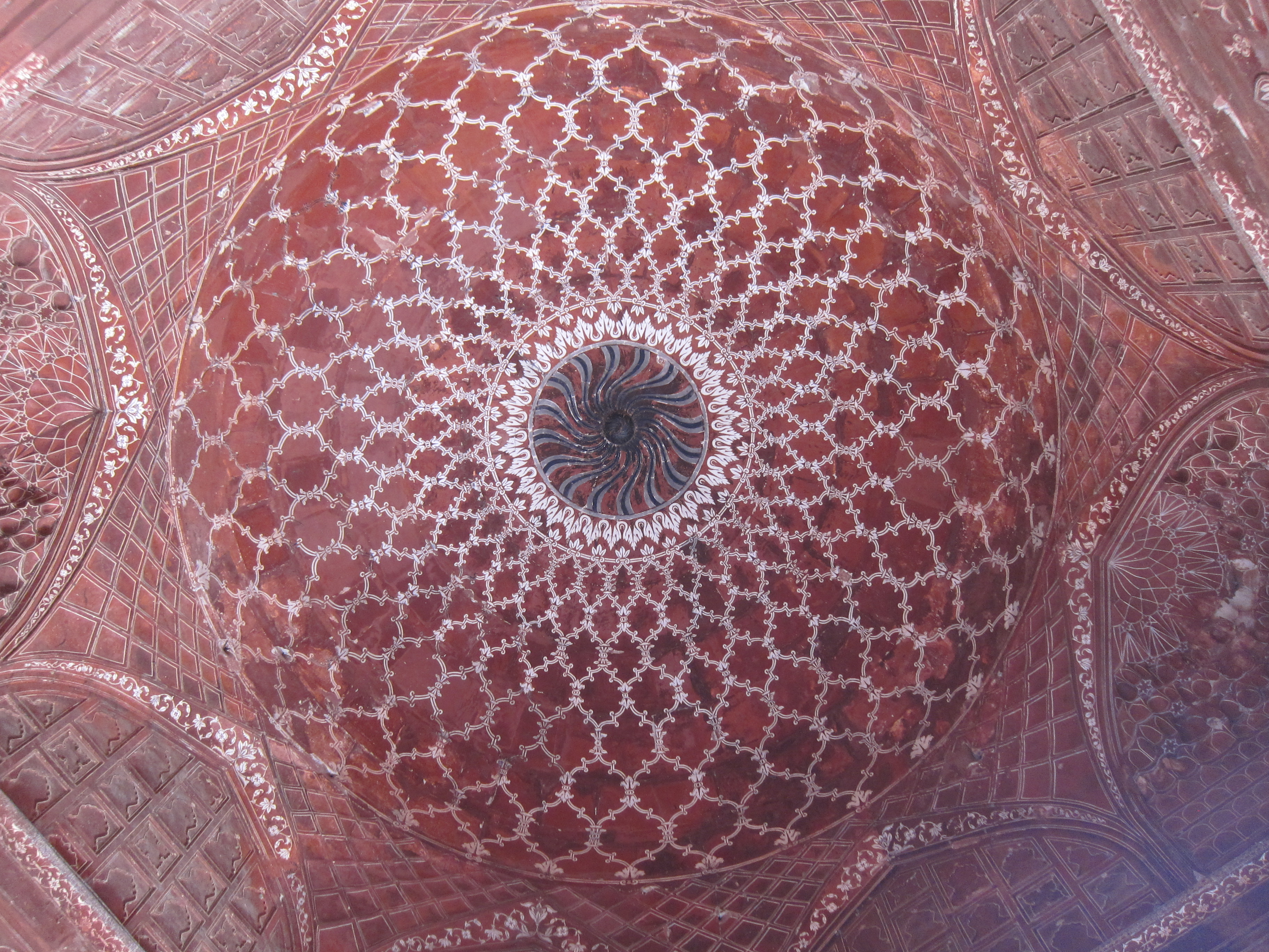 Ceiling, Taj Mahal mosque